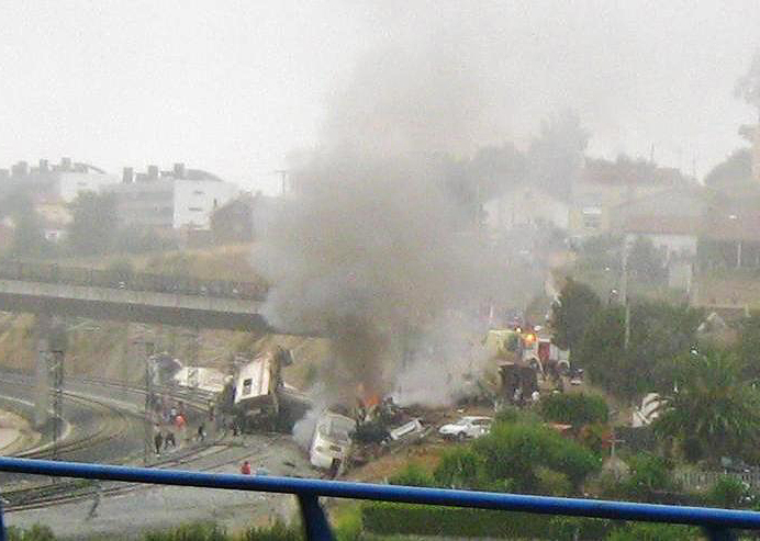 Train accident in Angrois, near Santiago de Compostela, July 24, 2013.